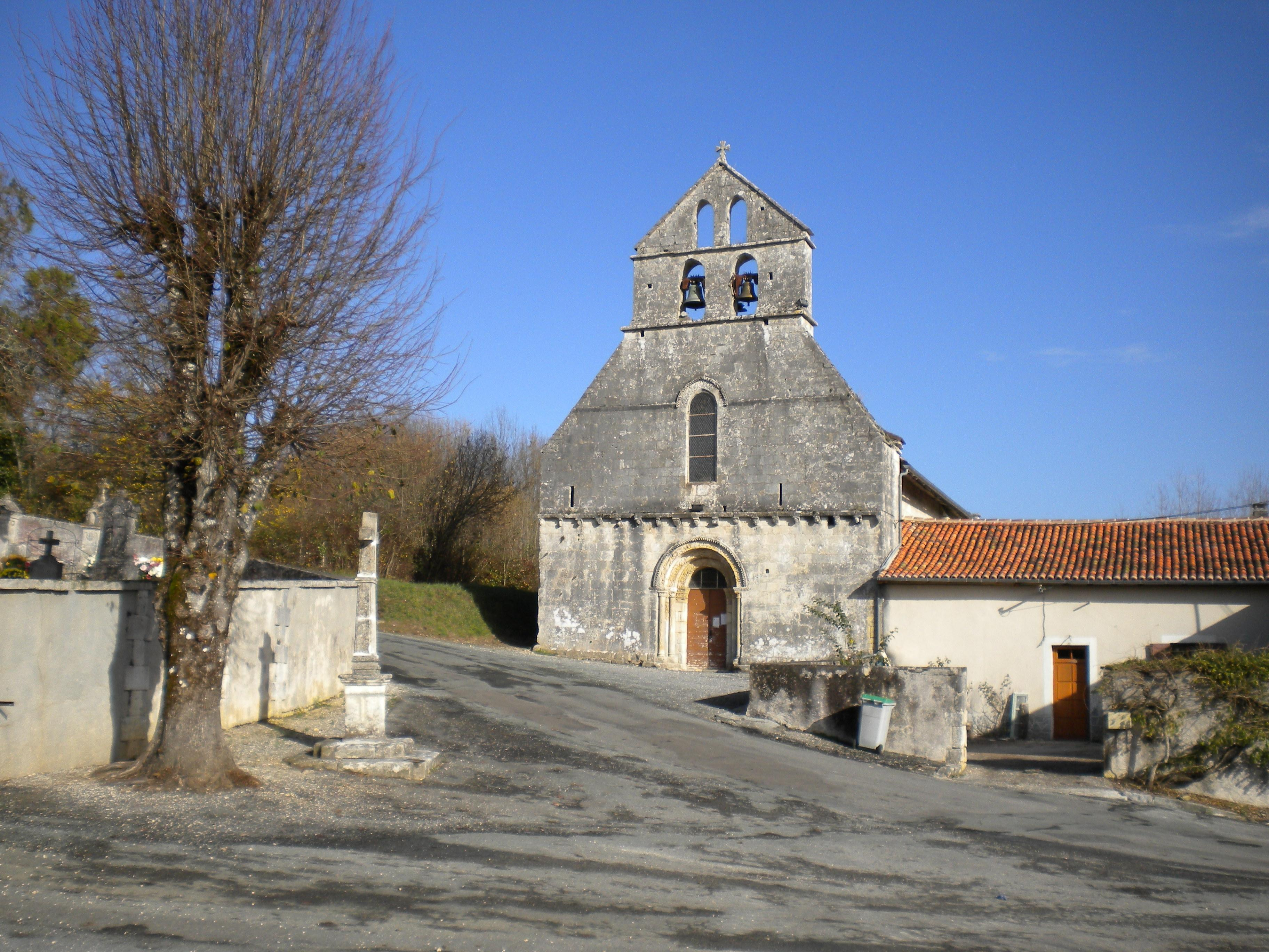 Twelfth century romanesque church Saint-Martial in Saint-Martial-de-Valette, Dordogne, France.